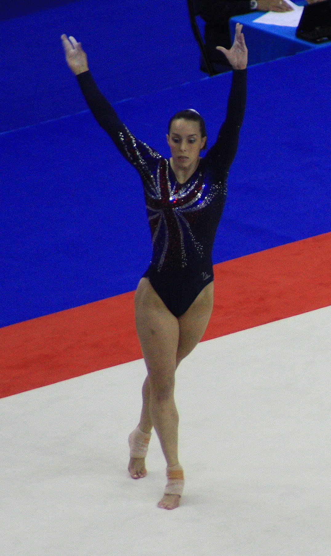 Elizabeth Tweddle (UK) during her victory in the female floor final of the 2009 World Artistic Gymnastics Championships in London.